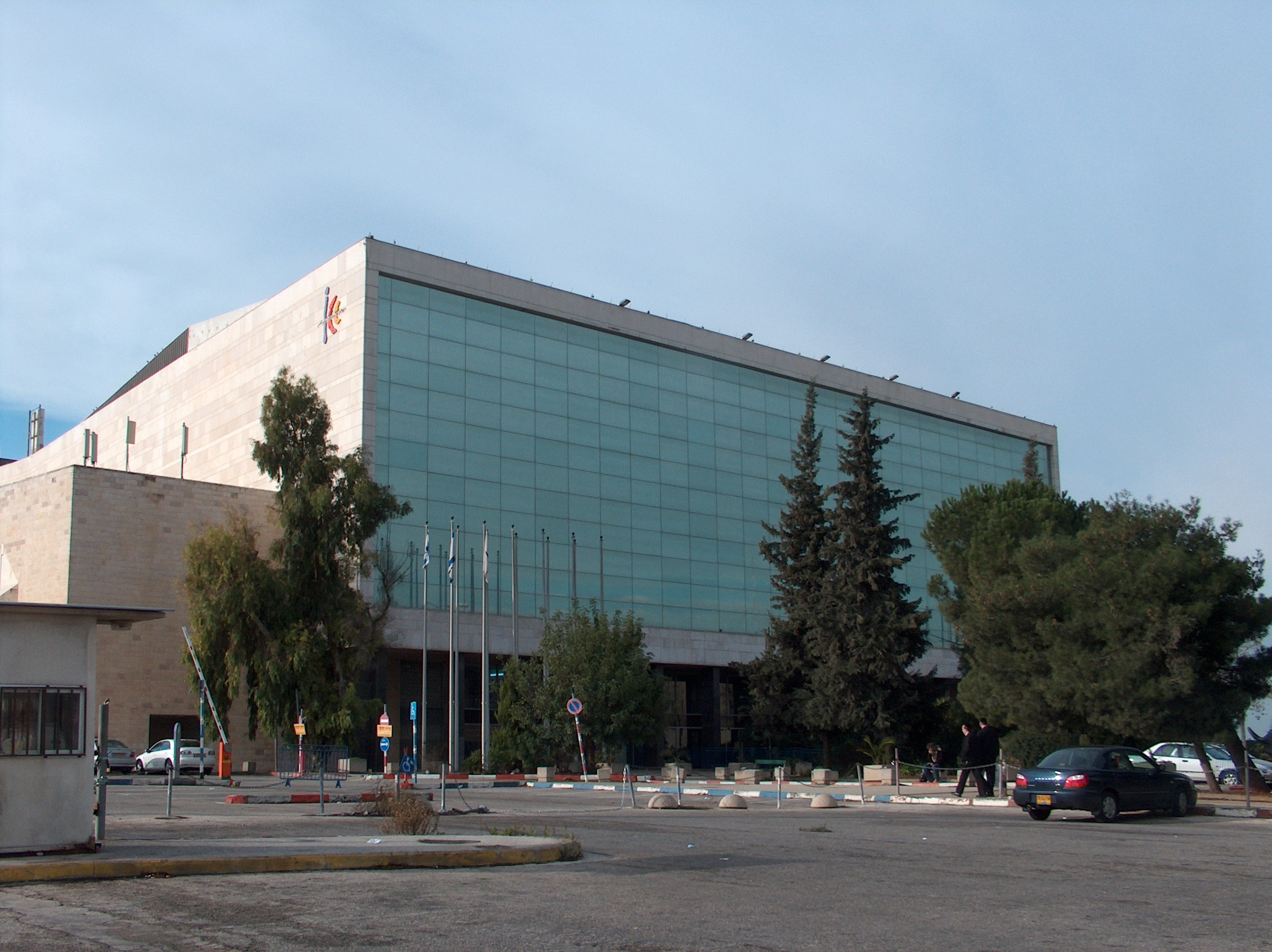 Jerusalem's International Convention Center (also known as "Binyanei HaUmah").